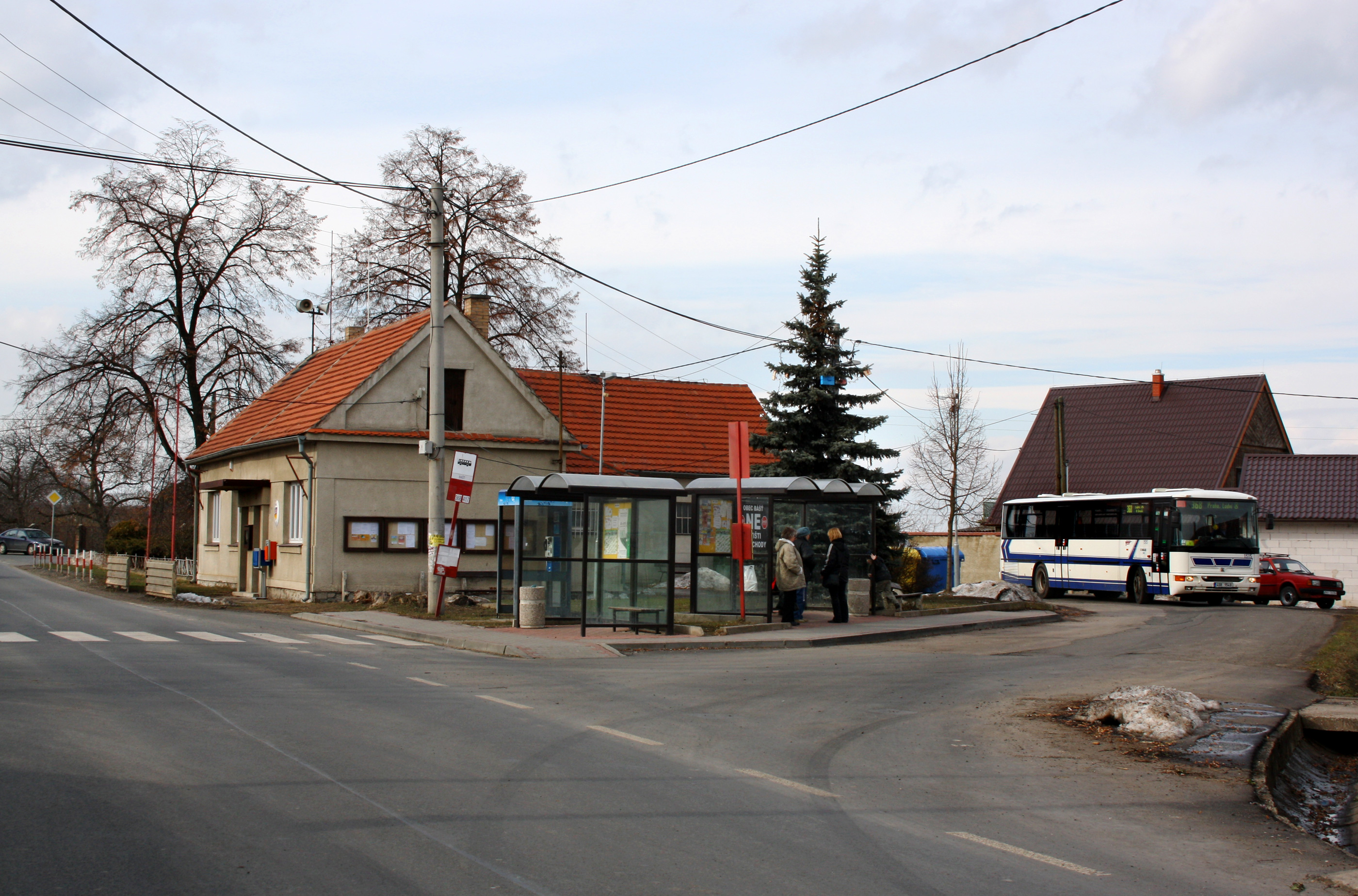 Common in Bašť village, Czech Republic